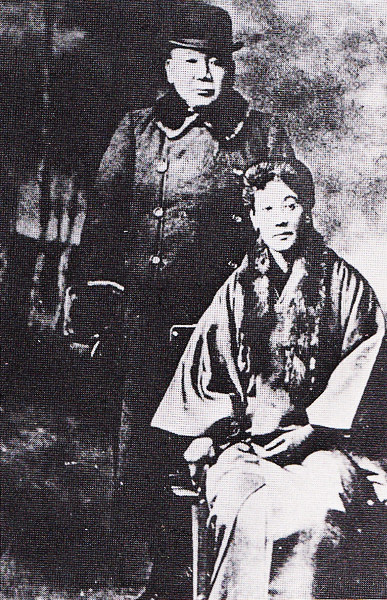 Japanese Field Marshall Prince Iwao Ōyama (1842–1916) and his wife, Princess Sutematsu Ōyama (1860–1919).